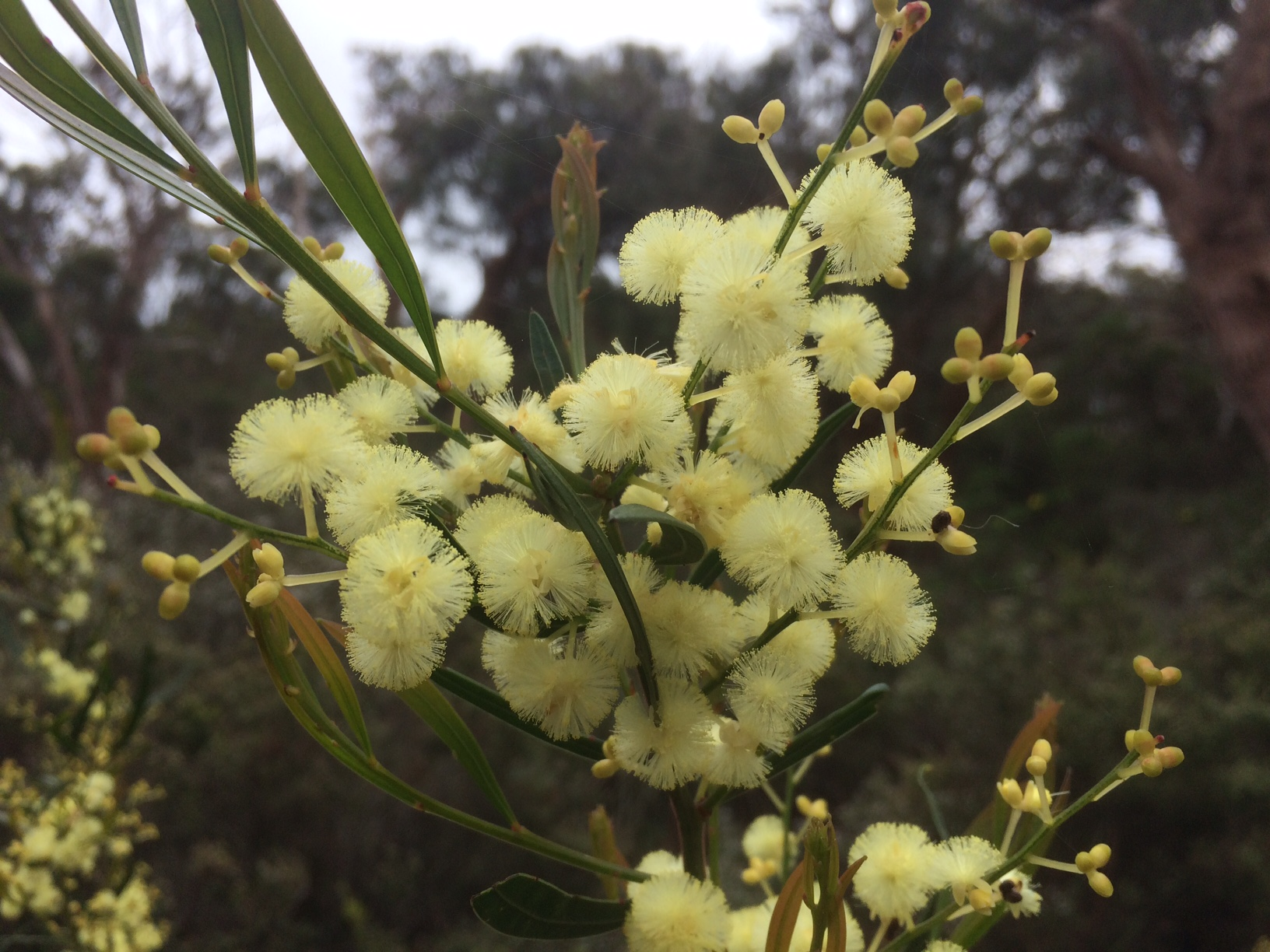 Acacia nervosa flowers